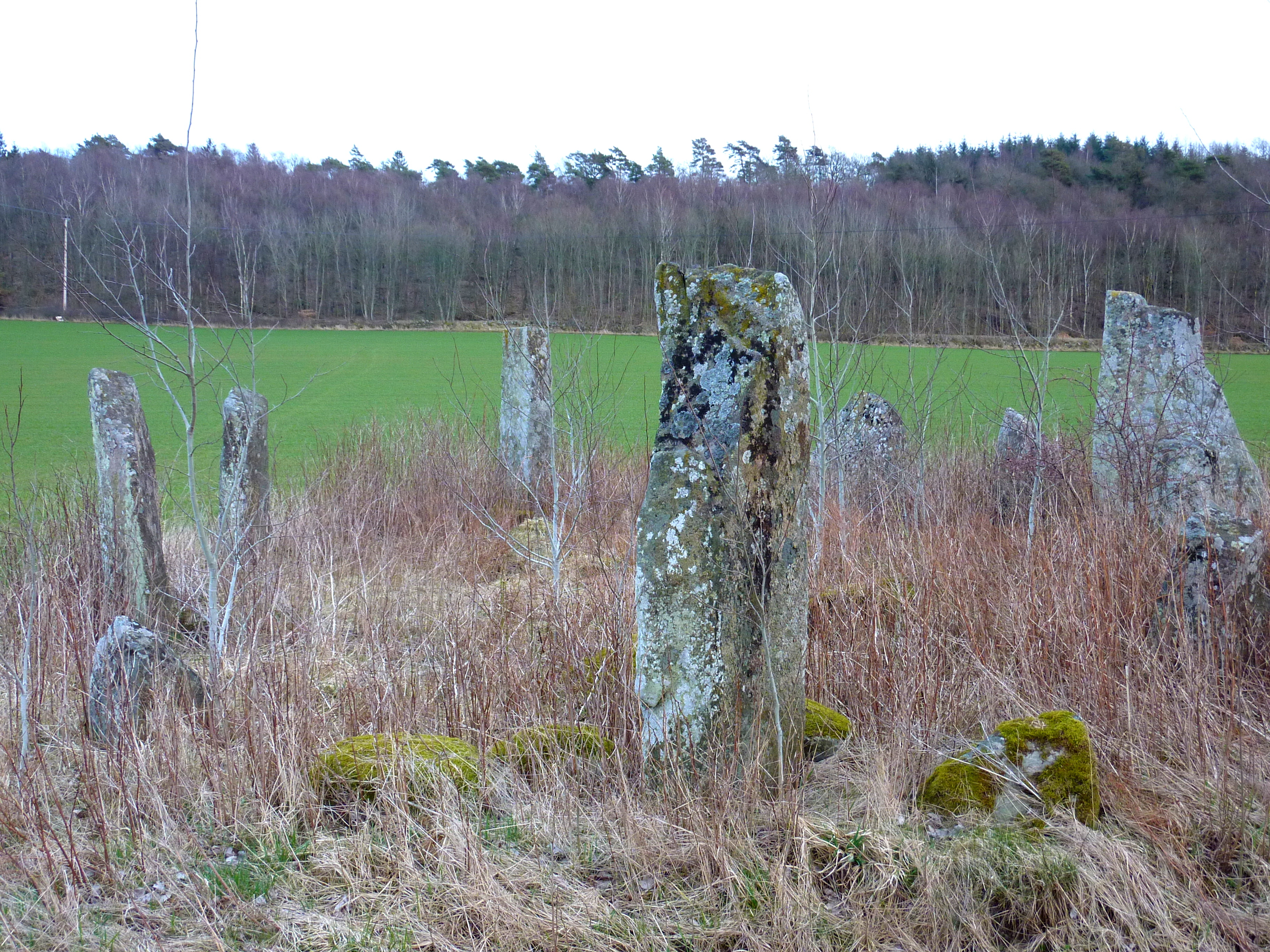 The "klockstenarna" skeppssättning (stone ship). Located at Vastad, Eftra parish, Falkenberg municipality, Halland, Halland county, Sweden.